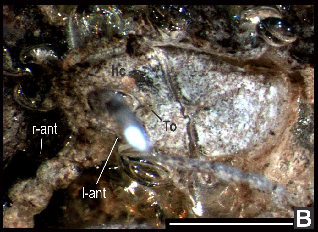 Figure 4. Anbarrhacus adamantis nov. gen. and sp., holotype. (B): Head, collum and antenna, scale bar 1 mm Anatomical Abbreviations: ant, antennae; hc, head capsule; To, Tömösváry organ; Anatomical elements of the right and left sides are denoted as (r) and (l), respectively